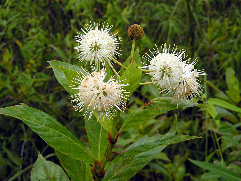 A buttonbush (Cephalanthus occidentalis) growing in Everglades National Park, Florida